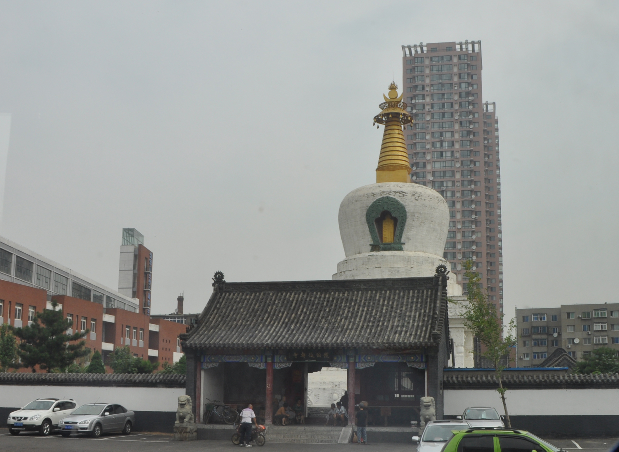 Xita (West Tower), Shenyang, Liaoning, China